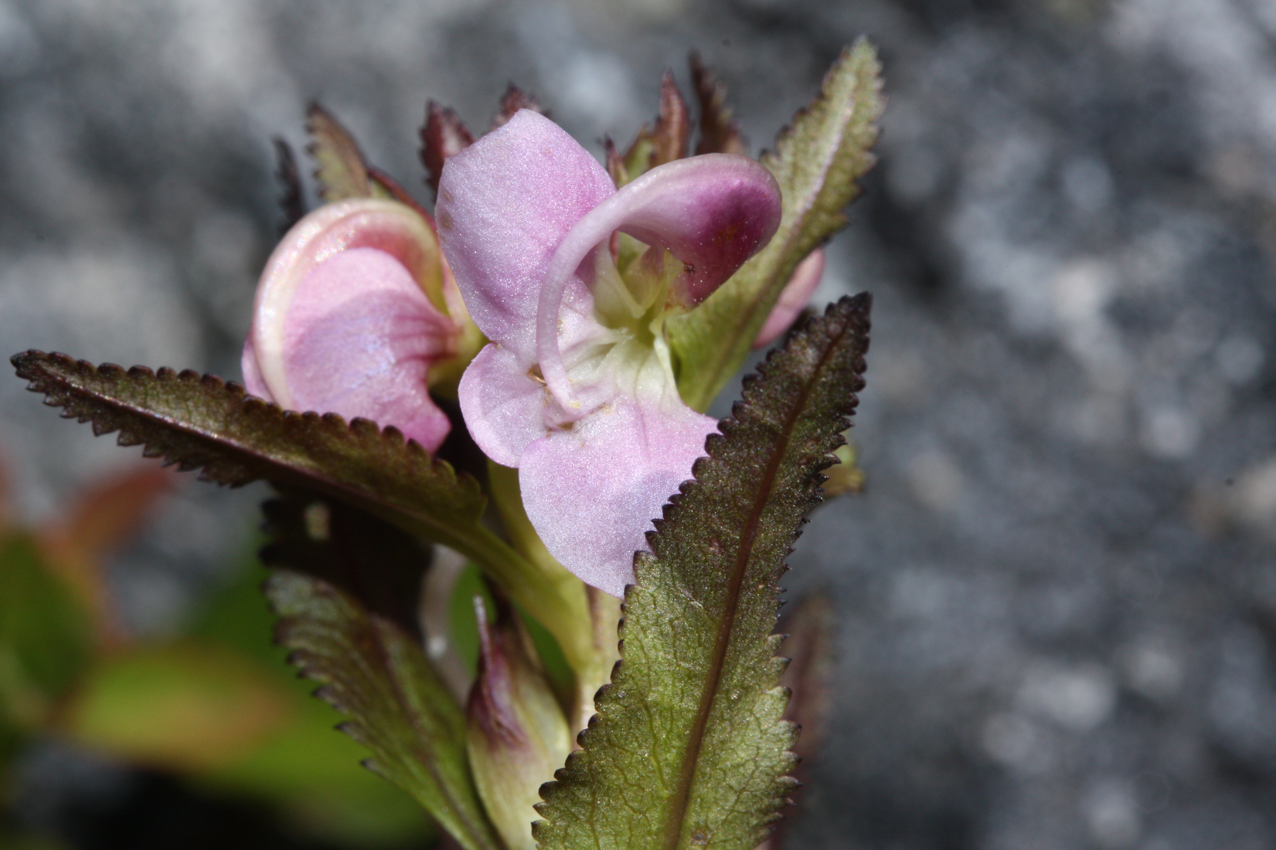 Sickletop Lousewort